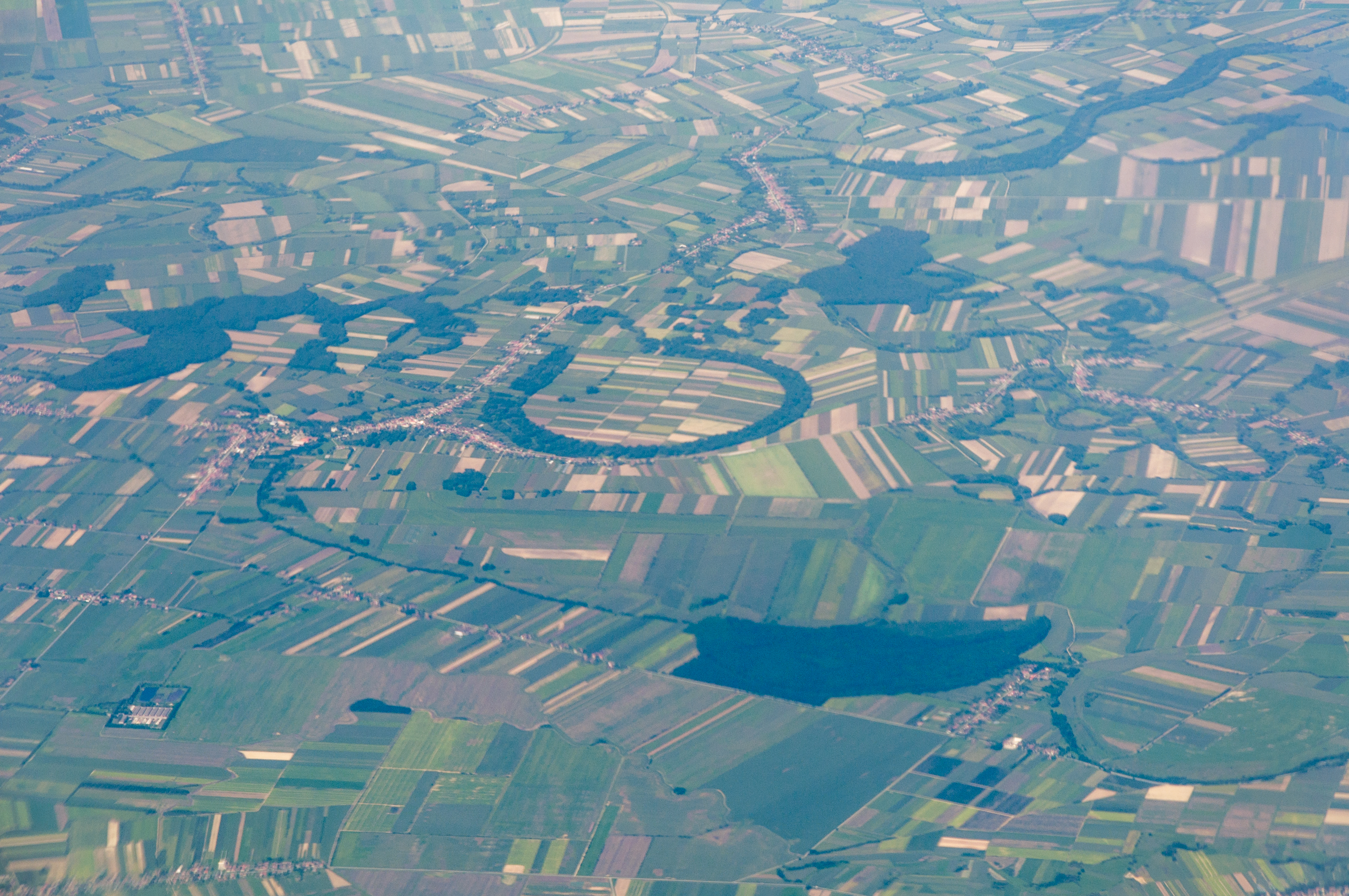 Croatia, aerial impressions between Belgrade and Munich